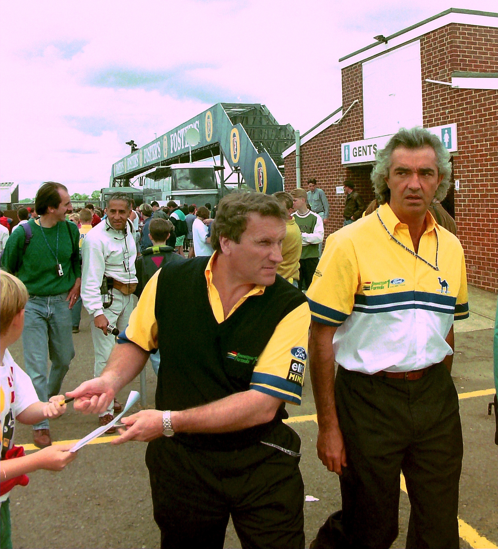 Tom Walkinshaw and Flavio Briatore in the paddock at the 1993 British Grand Prix